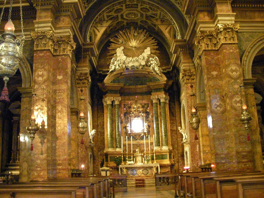 The chapel of Madonna del Fuoco in the Cathedral of Santa Croce to Forlì